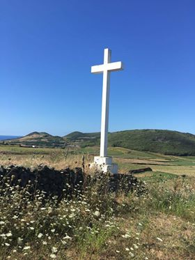 Monument at Brasileira, Graciosa Island, Azores, marking the location of the July 13th, 1929 plane crash that killed the Polish aviation pioneer Ludwik Idzikowski during an atempt to reach North America departing from Europe.